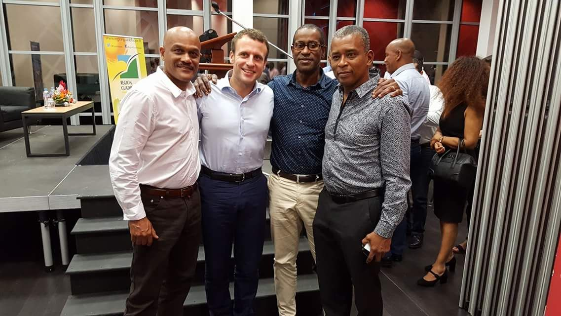 Campagne présidentielle Emmanuel Macron 2016